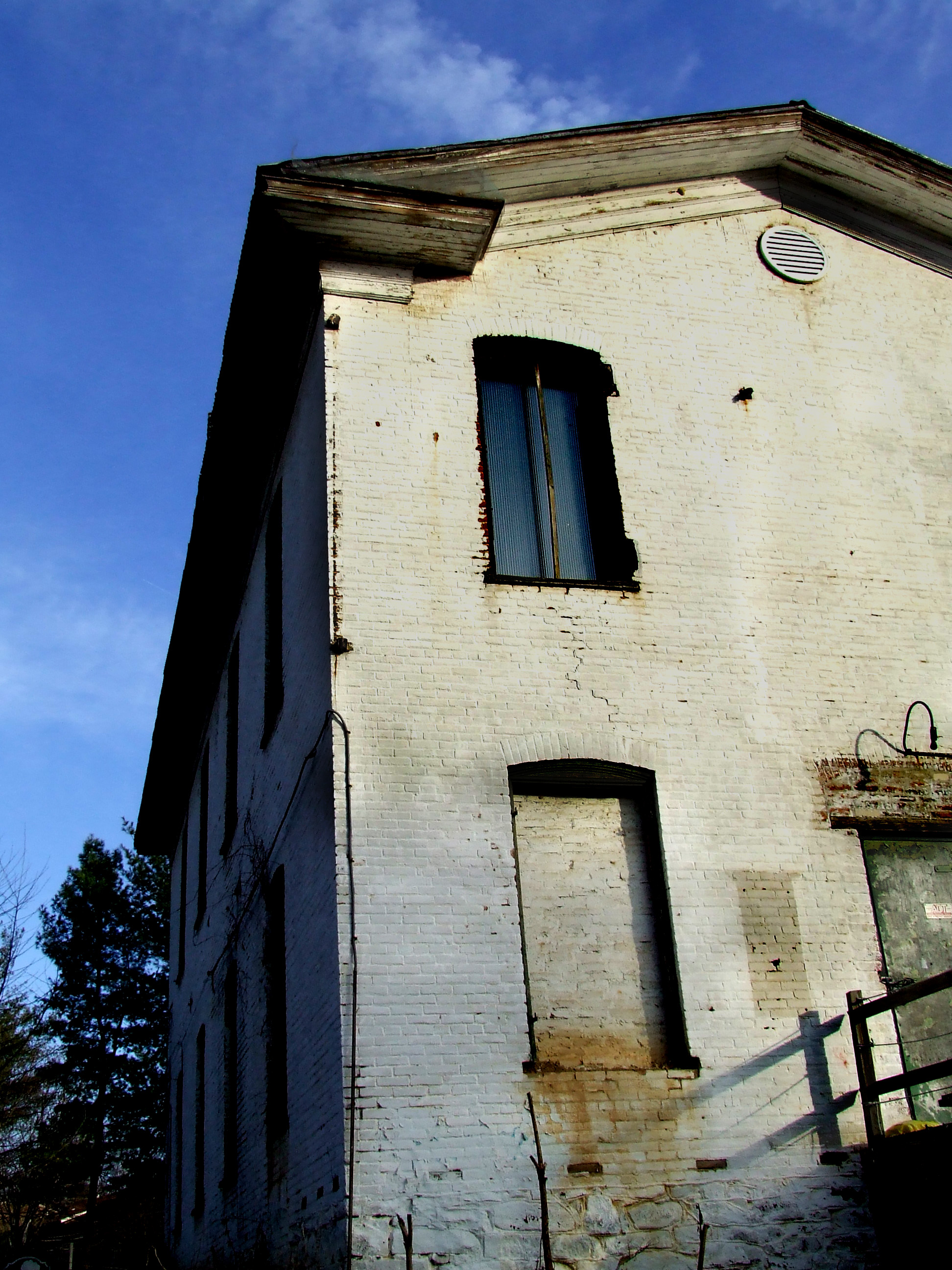 Old wine distillery owned by the Bowman family. It was built in 1933, after the prohibition act was repealed.